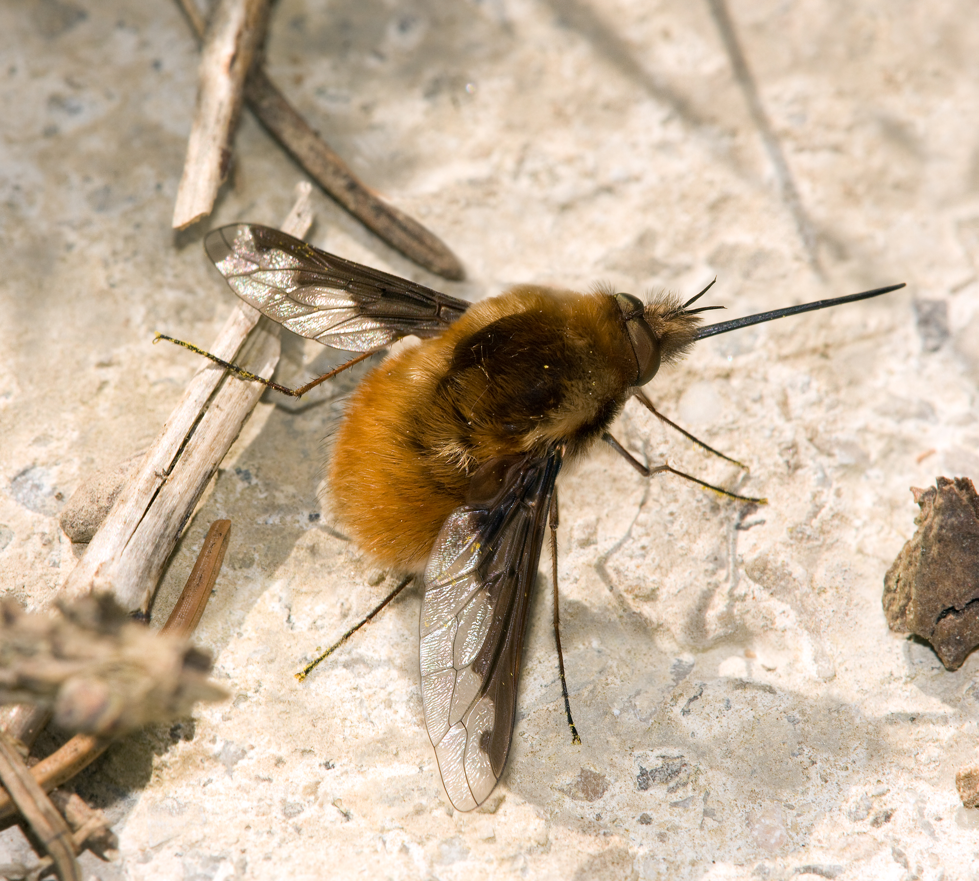 Bee-fly (Bombylius major) is a large genus of flies belonging to the family Bombyliidae (the bee-flies). The genus has a global distribution.